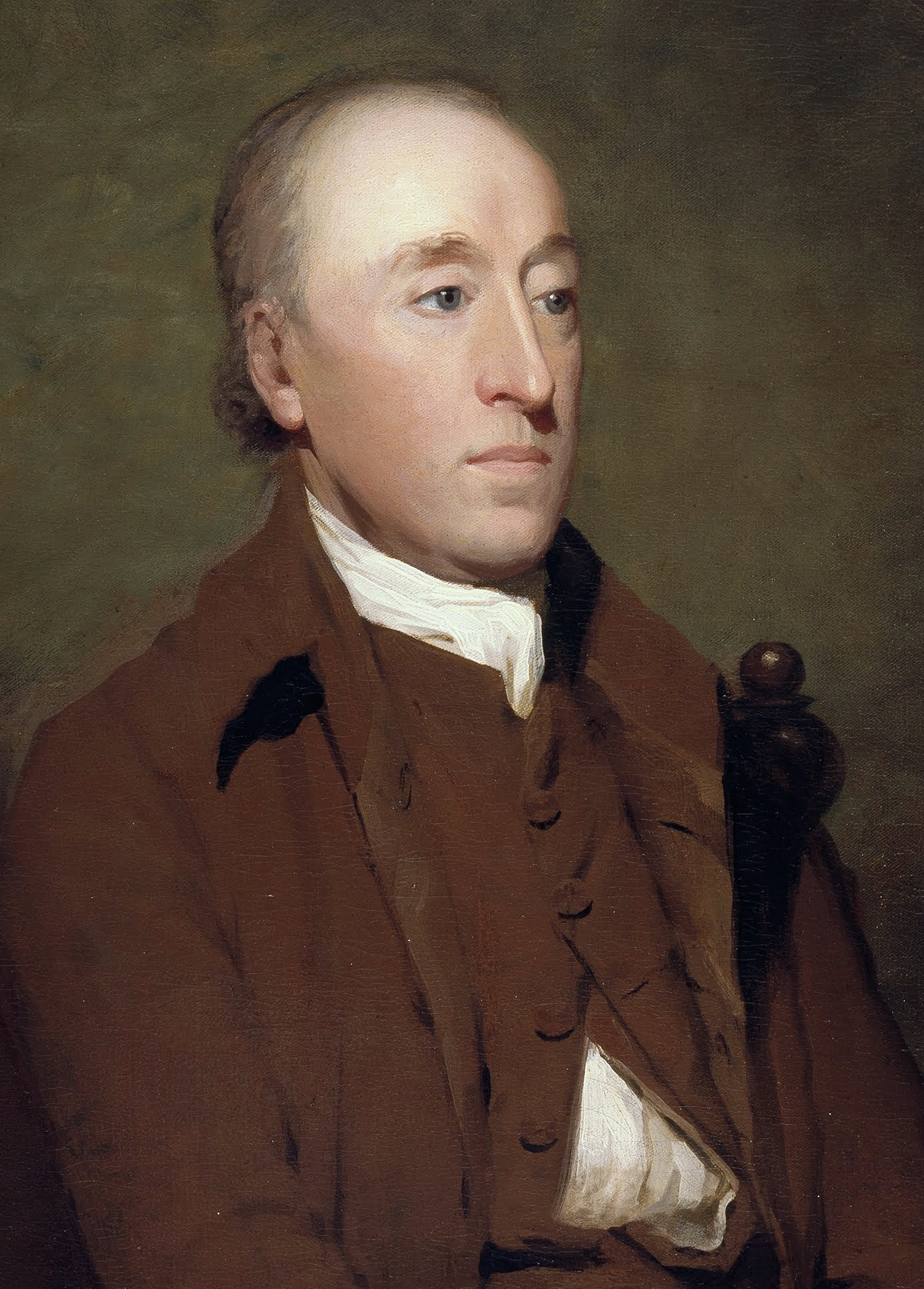 Portrait of James Hutton, the founder of modern geology - He died in 1797, so the painting was done before then.